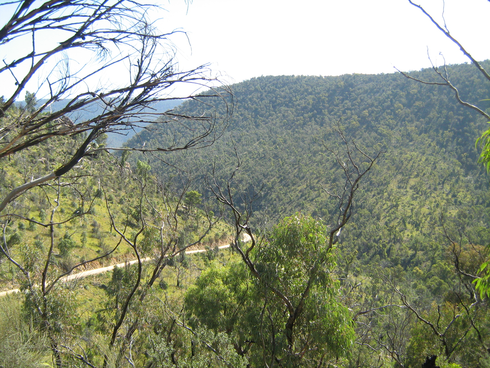 The Barry Way snaking through the wilderness of the Australian Alps, New South Wales.